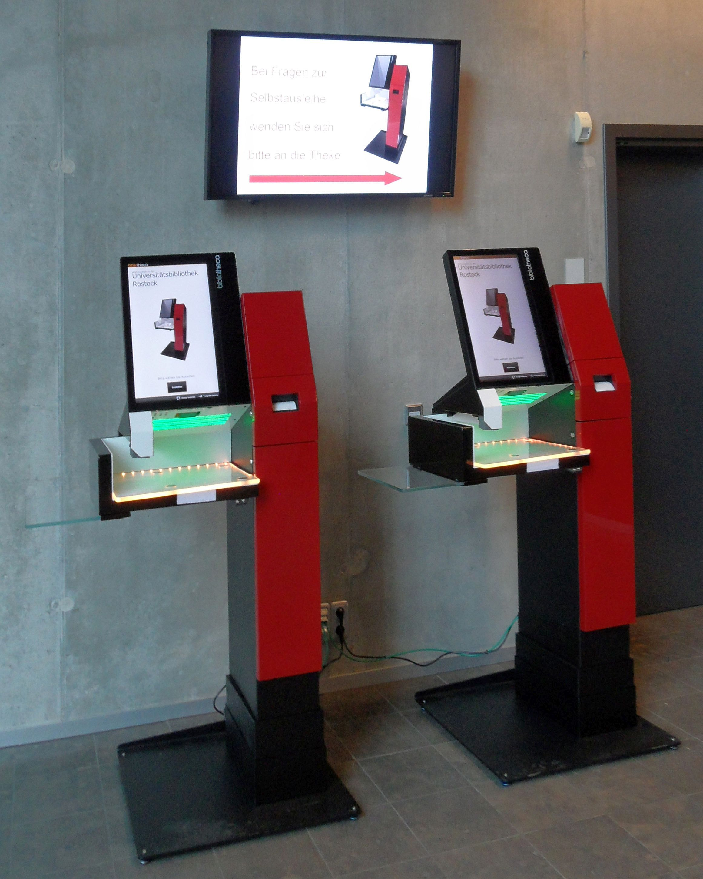 University Library Rostock - Divisonal Library Südstadt, Ground floor with elevator, self check system and info screen